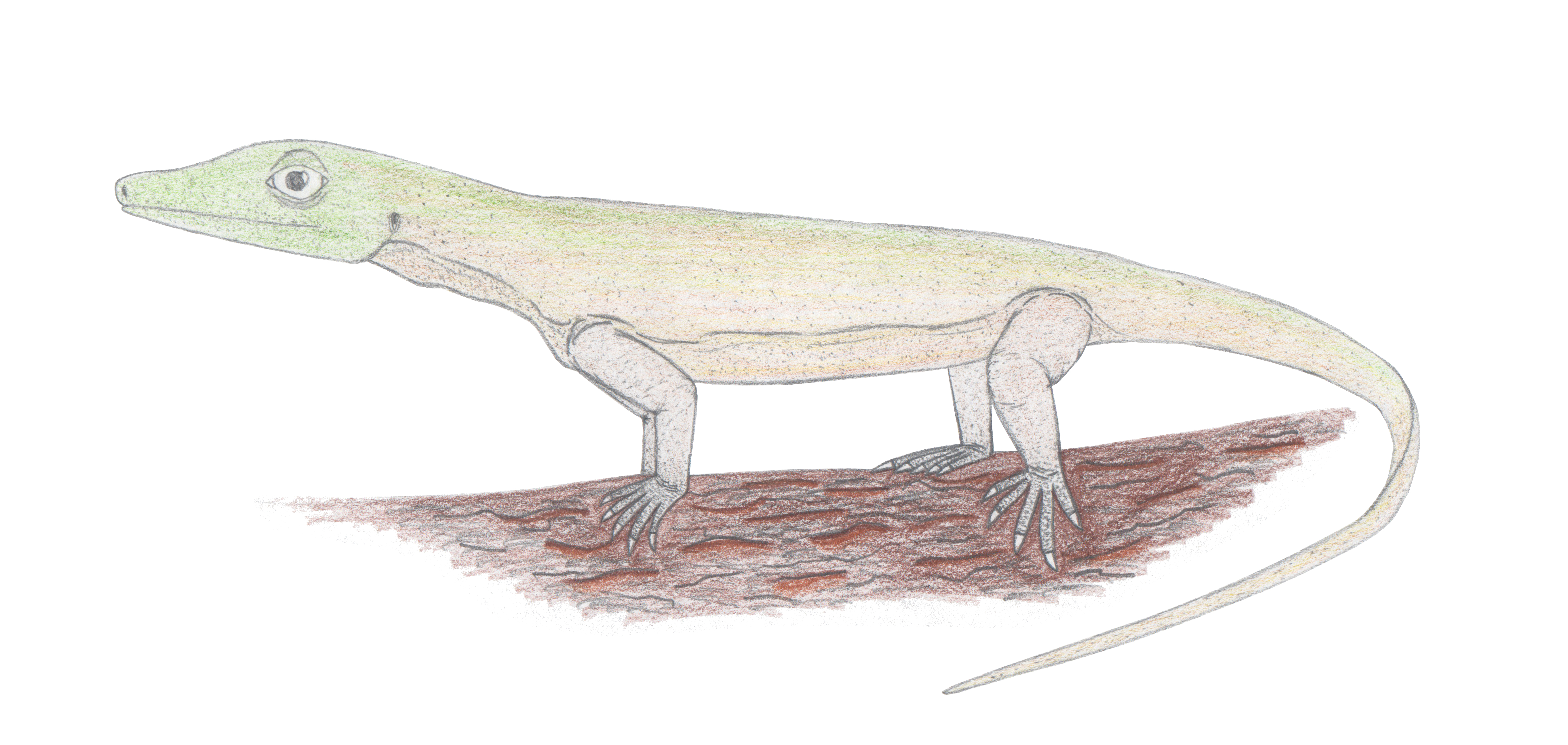 Life restoration of Orovenator mayorum, a stem neodiapsidan that lived ~289 mya in the mid-Permian.